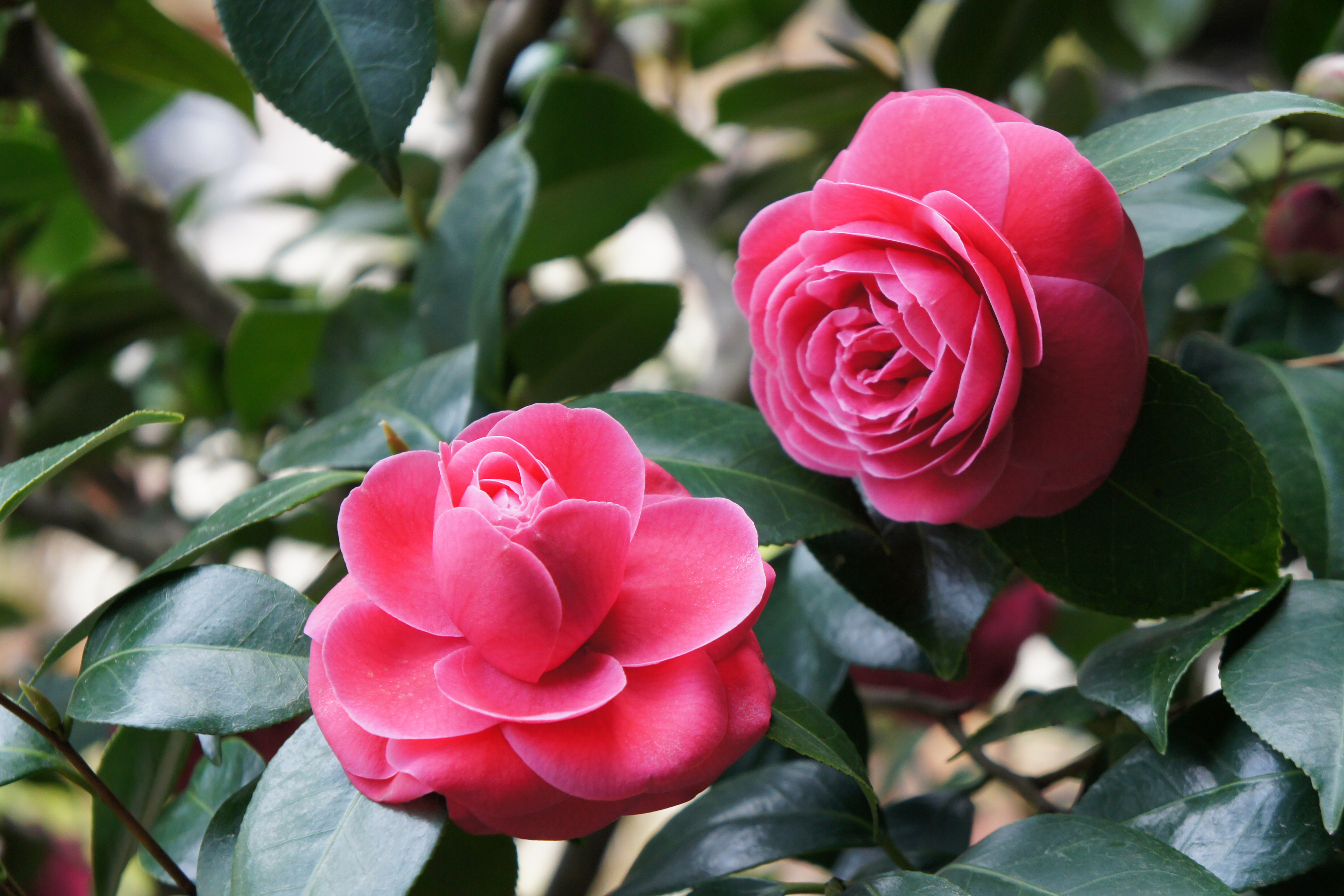 Shobo-ji in Nishikyo-ku, Kyoto, Kyoto prefecture, Japan